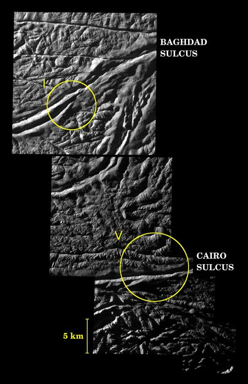 Jets of Enceladus ( indicated by two yellow circles )